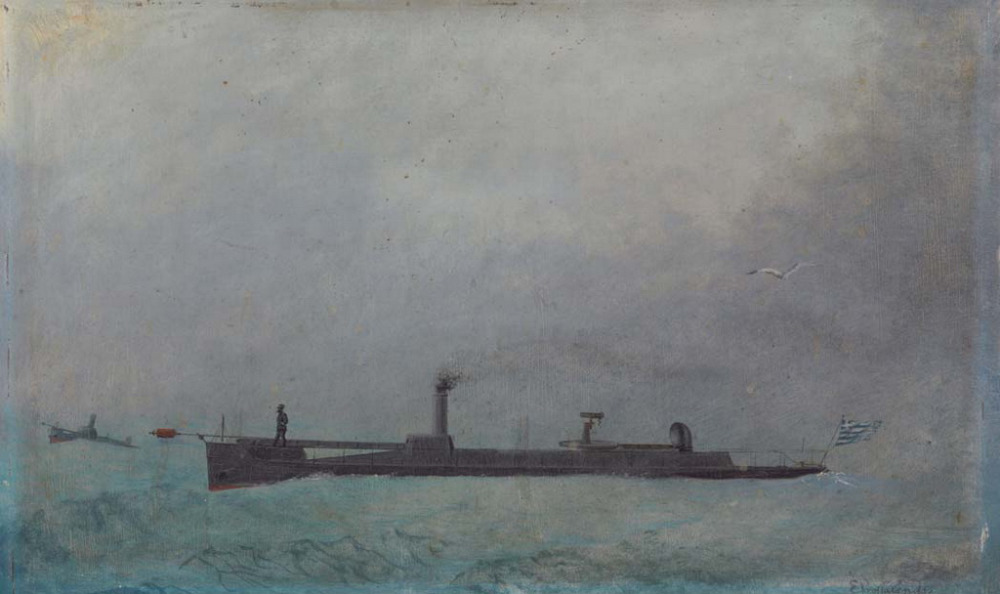 "Fereniki' class Greek torpedo boat.